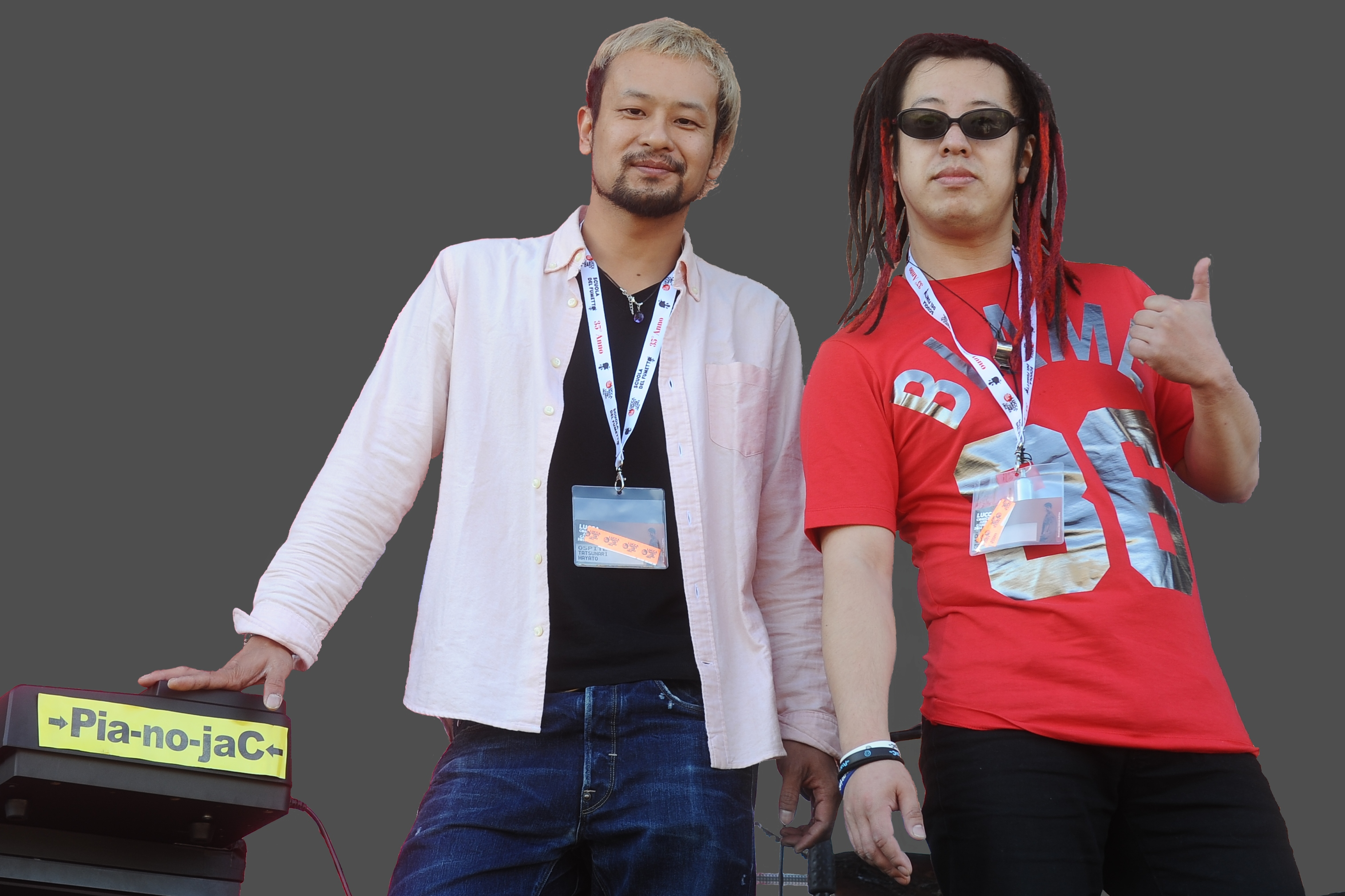 → Pia-no-jaC ← at Lucca Comics & Games.